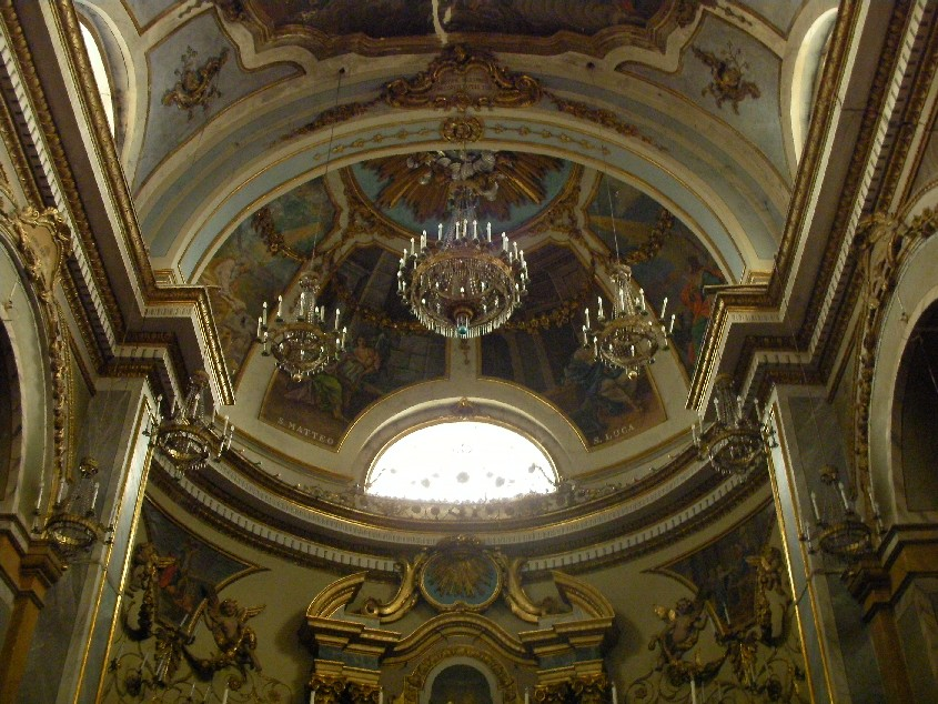 The ceiling of the apse of the church of St. Domenico to Atessa